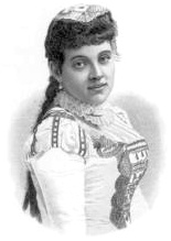 Johanna Loisinger was an opera singer